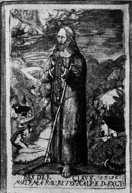 Saint Nicholas of Flüe is the patron saint of Switzerland (cupperprint 1592 from Martinus Martini in the monastery of Einsiedeln)